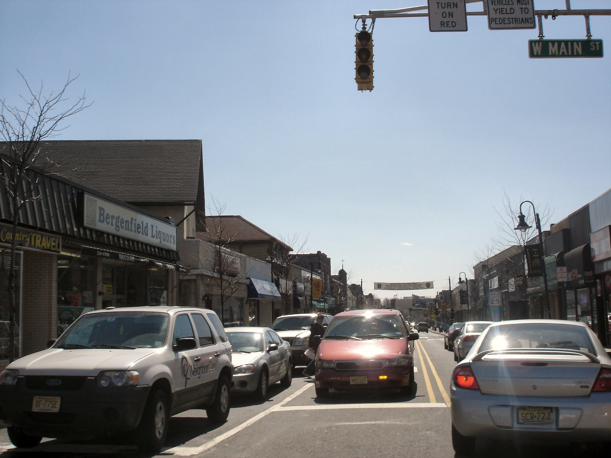 This image depicts Bergenfield's main road, Washington Avenue. User:Black and White took this image himself.